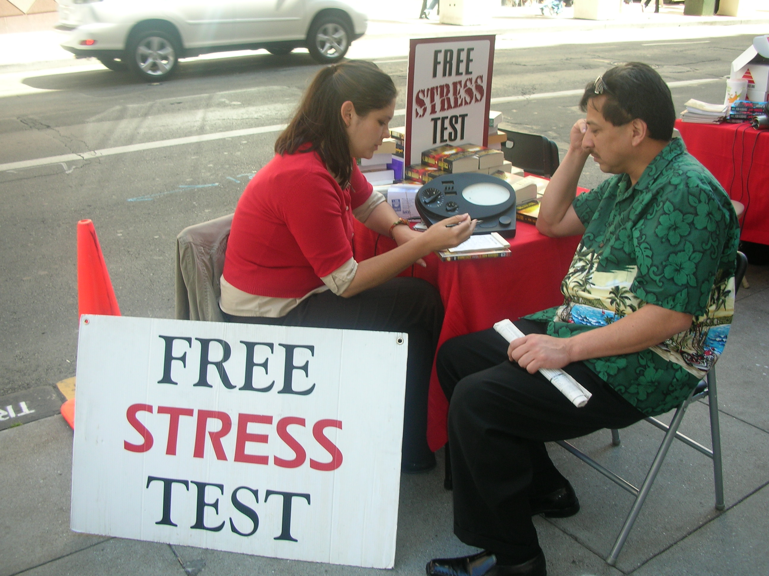 Scientology Stress Test with E-meter